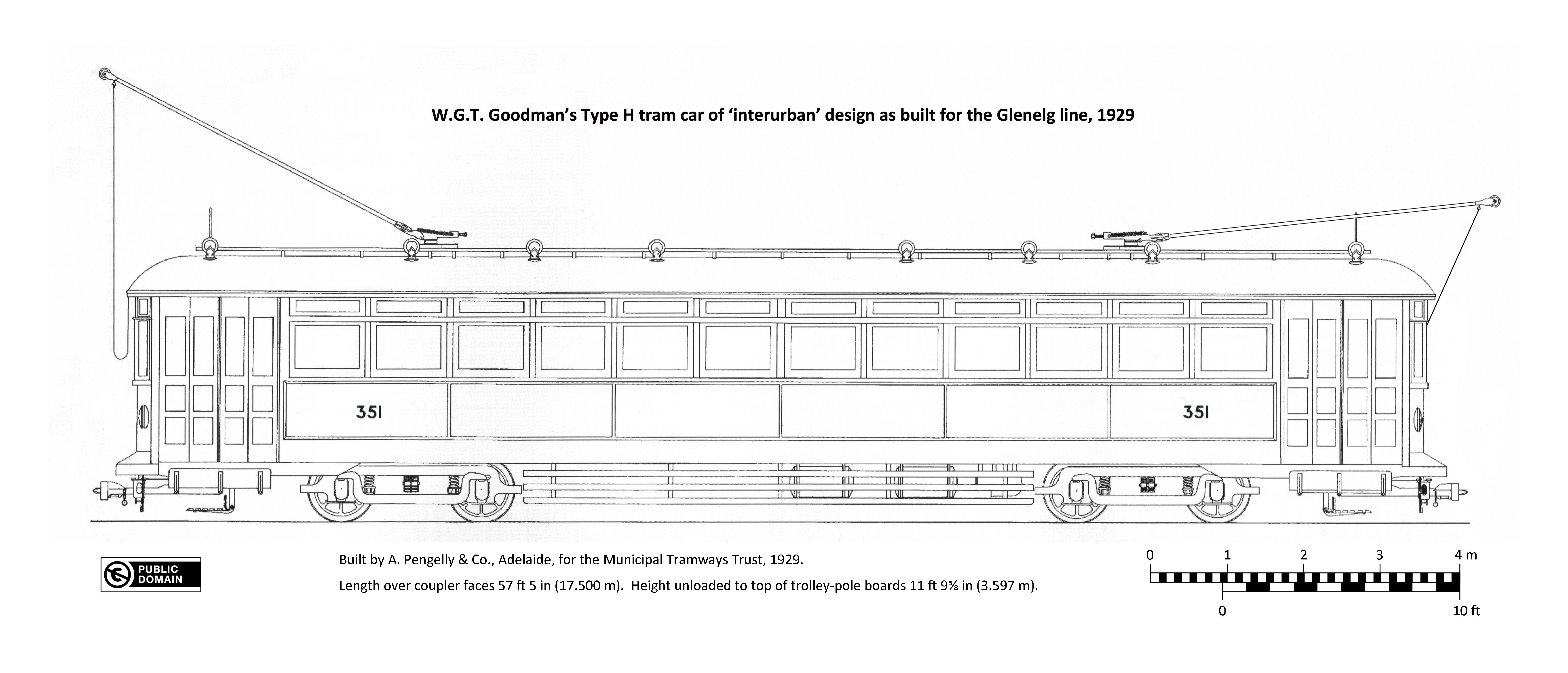 A scan of a black-and-white engineering drawing of the side elevation of a Type H tram of the Municipal Tramways Trust, Adelaide, South Australia.